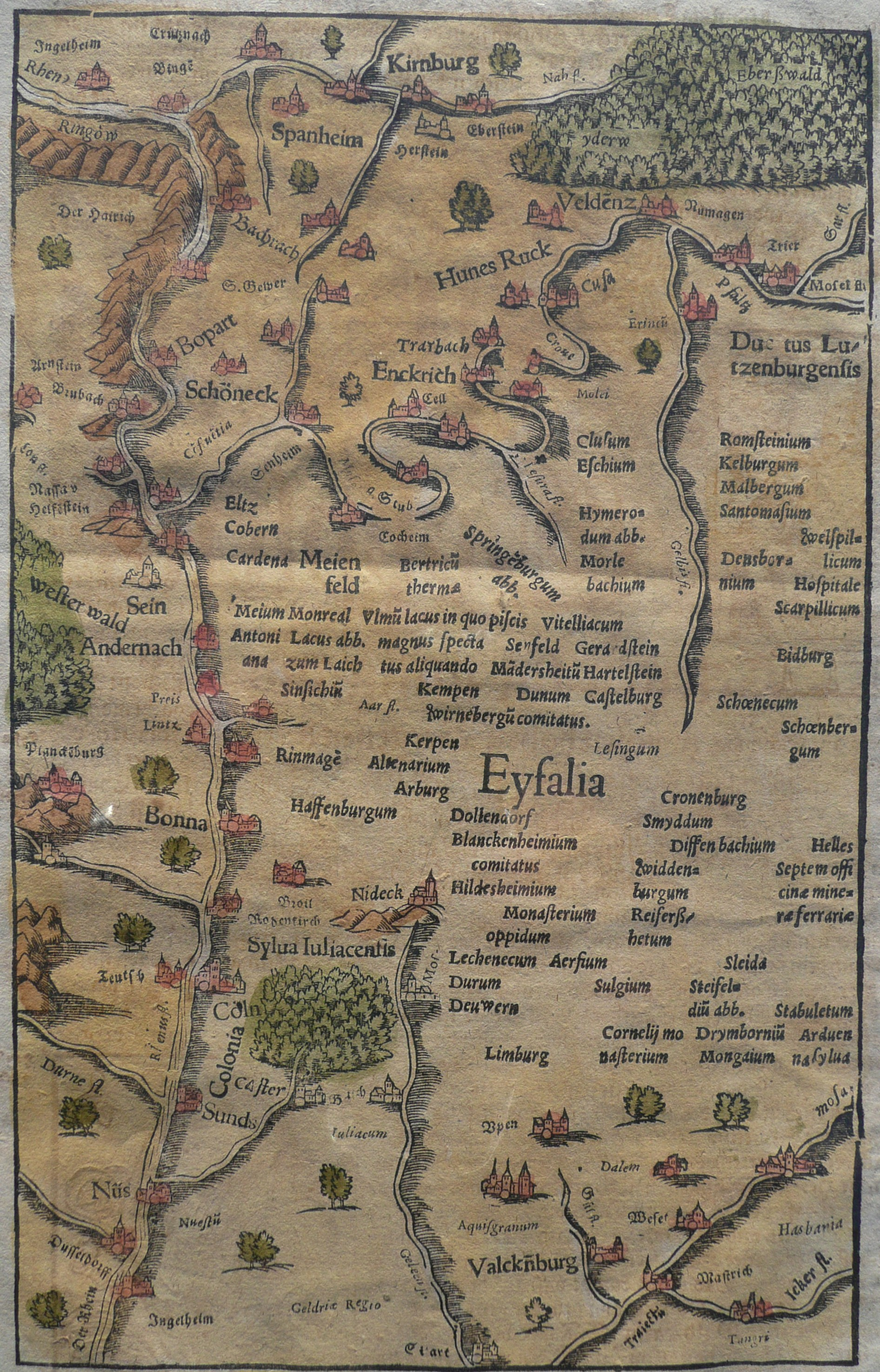 Historical map of the region left of the middle reaches of the River Rhine, showing the Hunsrück and Eifel mountains and adjacent areas, published in 1628 (the first uncoloured version was published in 1550). Note that north is to the bottom.